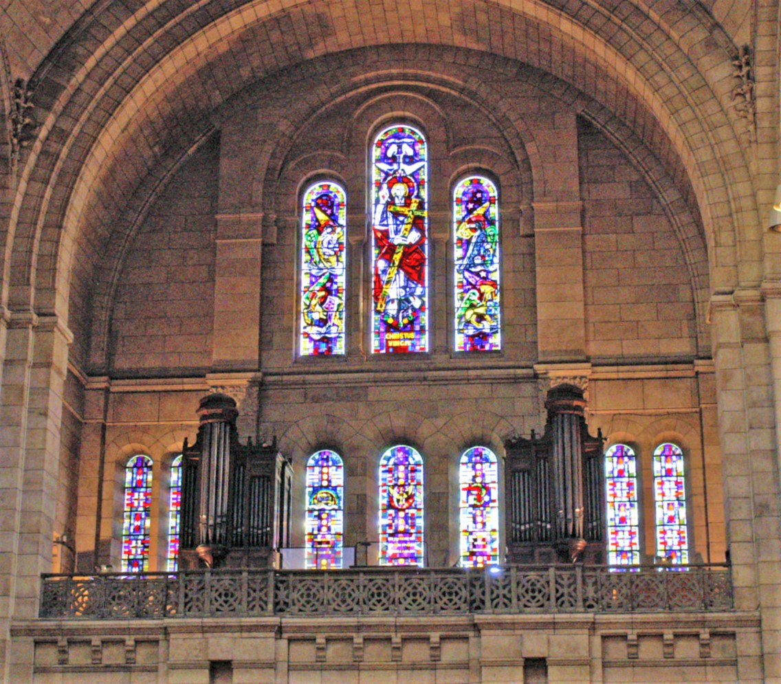 Basilica of the Sacré Cœur - The Choir Organ (Orgue de Chœur)